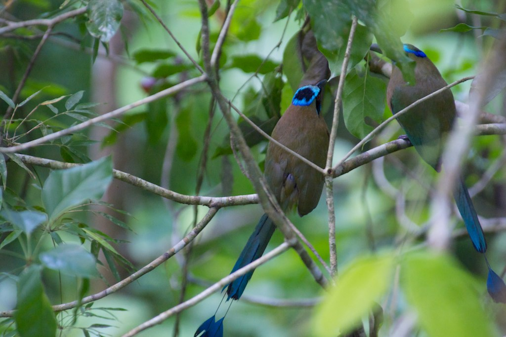 Whooping Motmot Momotus subrufescens, Panama